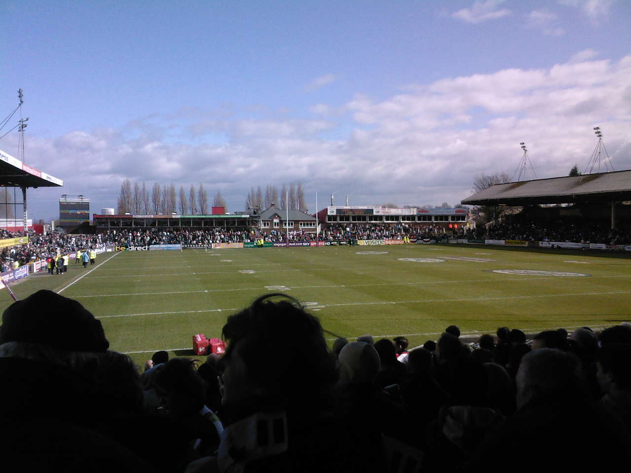 Photo of Knowsley Road in St Helens, Merseyside, taken from the away stand.